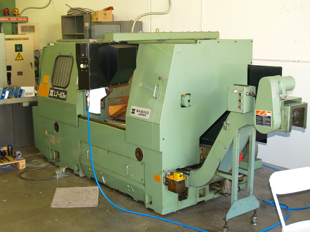 Wasino CNC lathe with chip conveyor